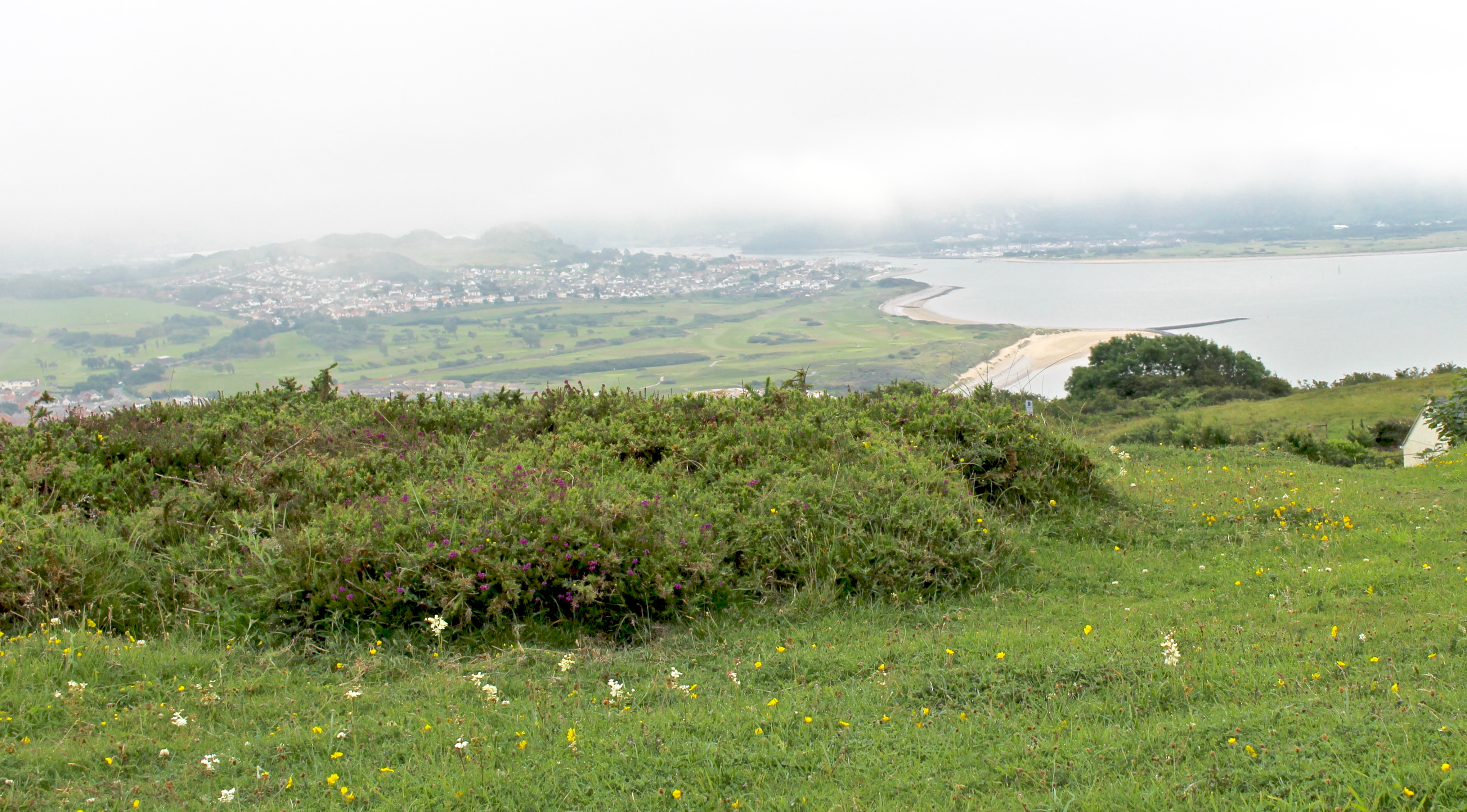 The critically endangered wild cotoneaster is only found on the Great Orme. They are 6 original plants and around 80 reintroduced individuals. The National Botanic Garden of Wales and Chester Zoo are working with Conwy Council to help conserve this Welsh endemic species.